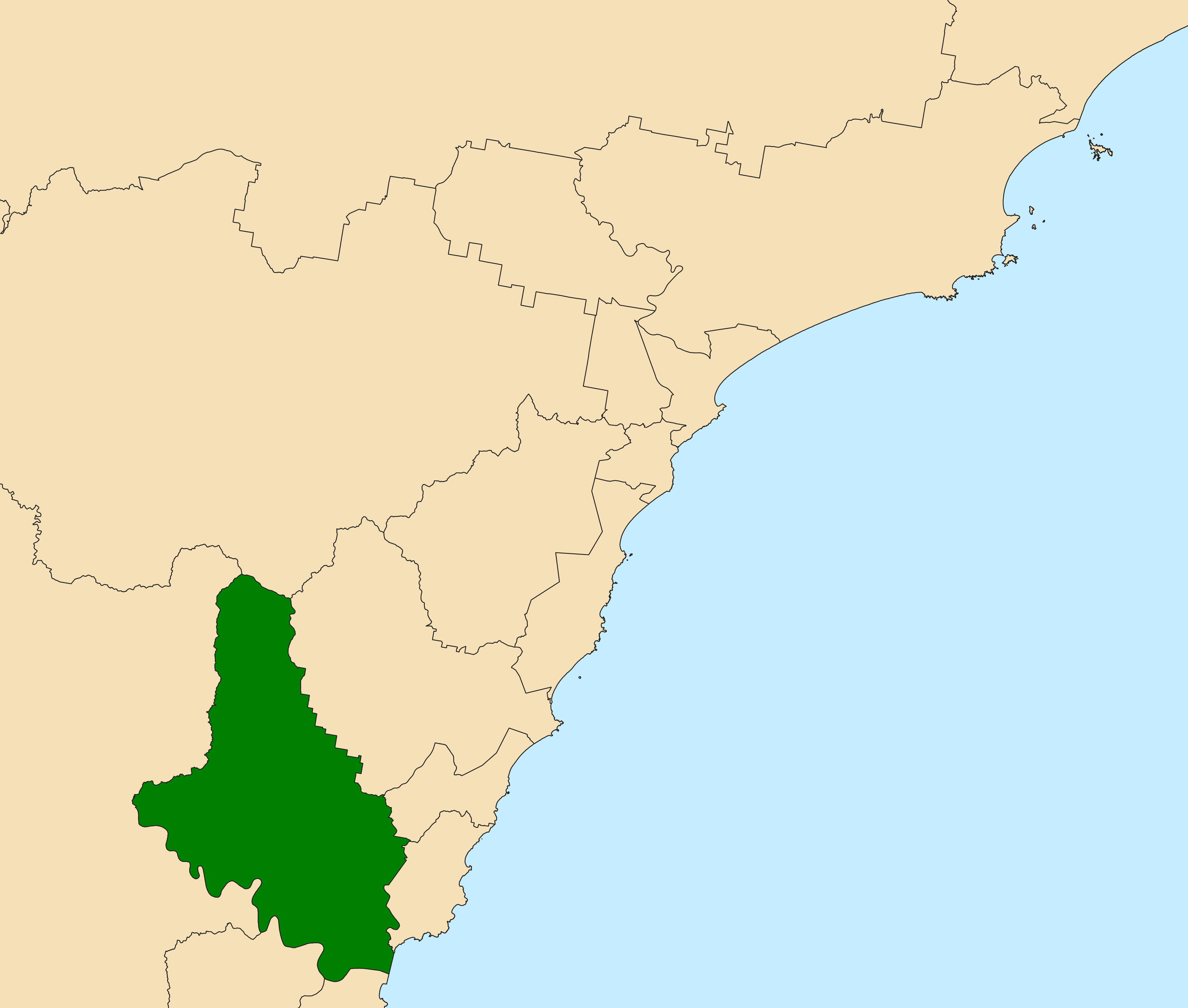 Location of the state electoral district of Gosford (dark green) in the Central Coast region of New South Wales, Australia as of the 2019 New South Wales state election. Incorporates or developed using Administrative Boundaries ©PSMA Australia Limited licensed by the Commonwealth of Australia under Creative Commons Attribution 4.0 International licence (CC BY 4.0).